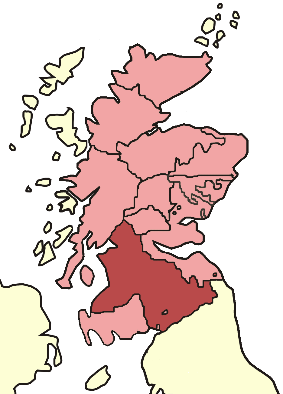 Diocese of Scotland in the reign of king David I. Based on William Forbes Skene's map of 1887.